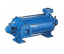 These pumps are designed for boiler feed, dewatering in mines, fire fighting applications.